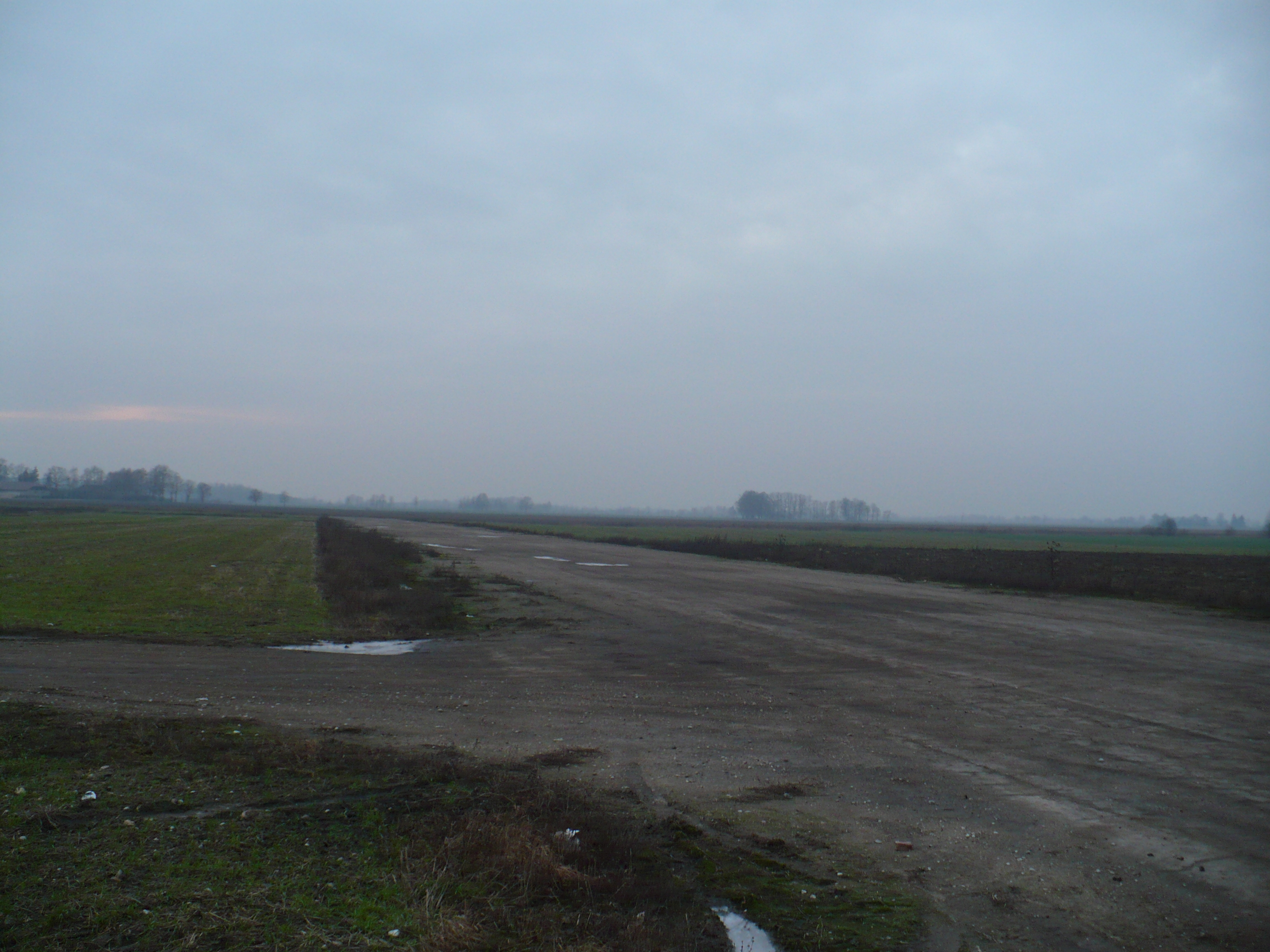 On the runway of old agricultural airport. Vecs lauksaimniecības lidlauks. 2007.12.30